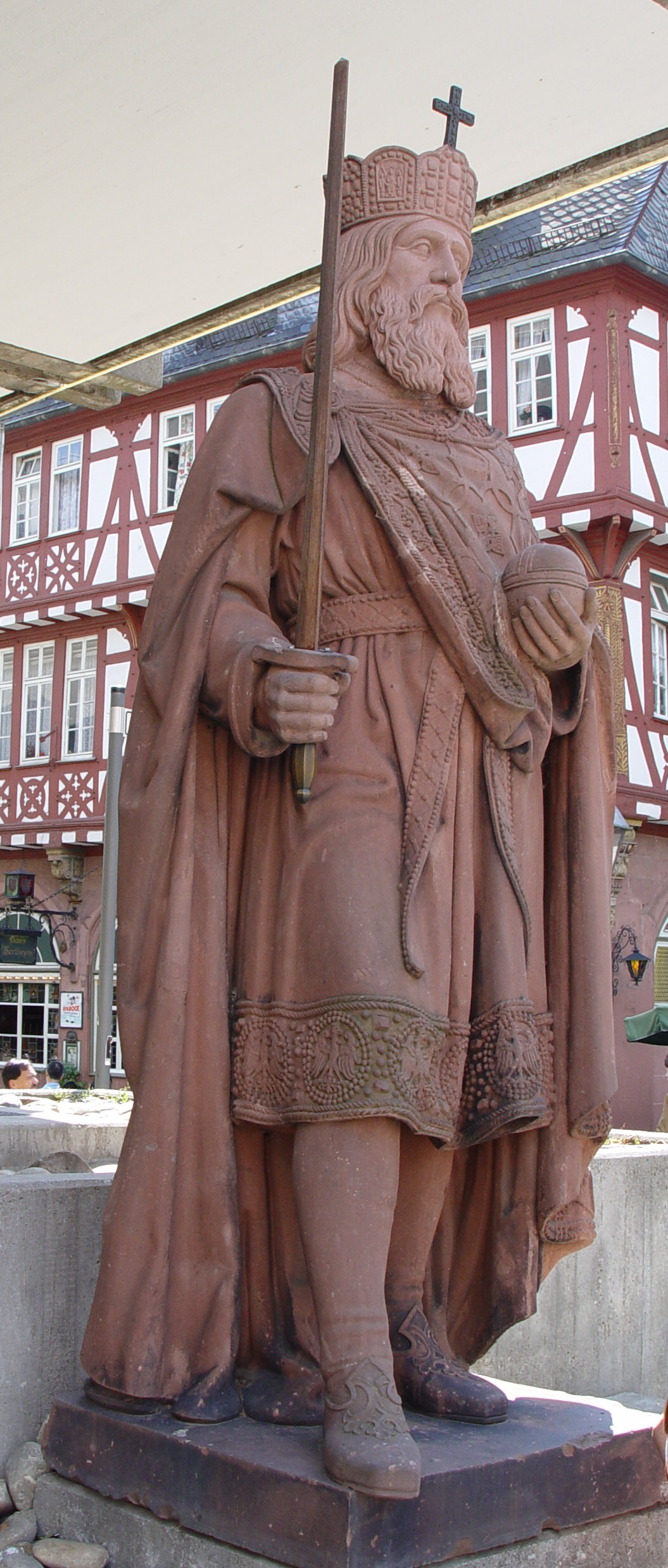 Statue of Charles the Great in Frankfurt, Germany, von Johann Nepomuk Zwerger